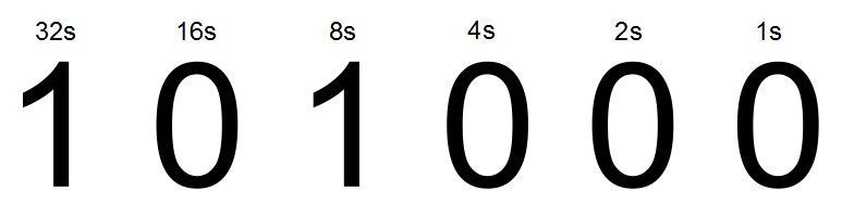 The number 40 shown in binary with unit labels.